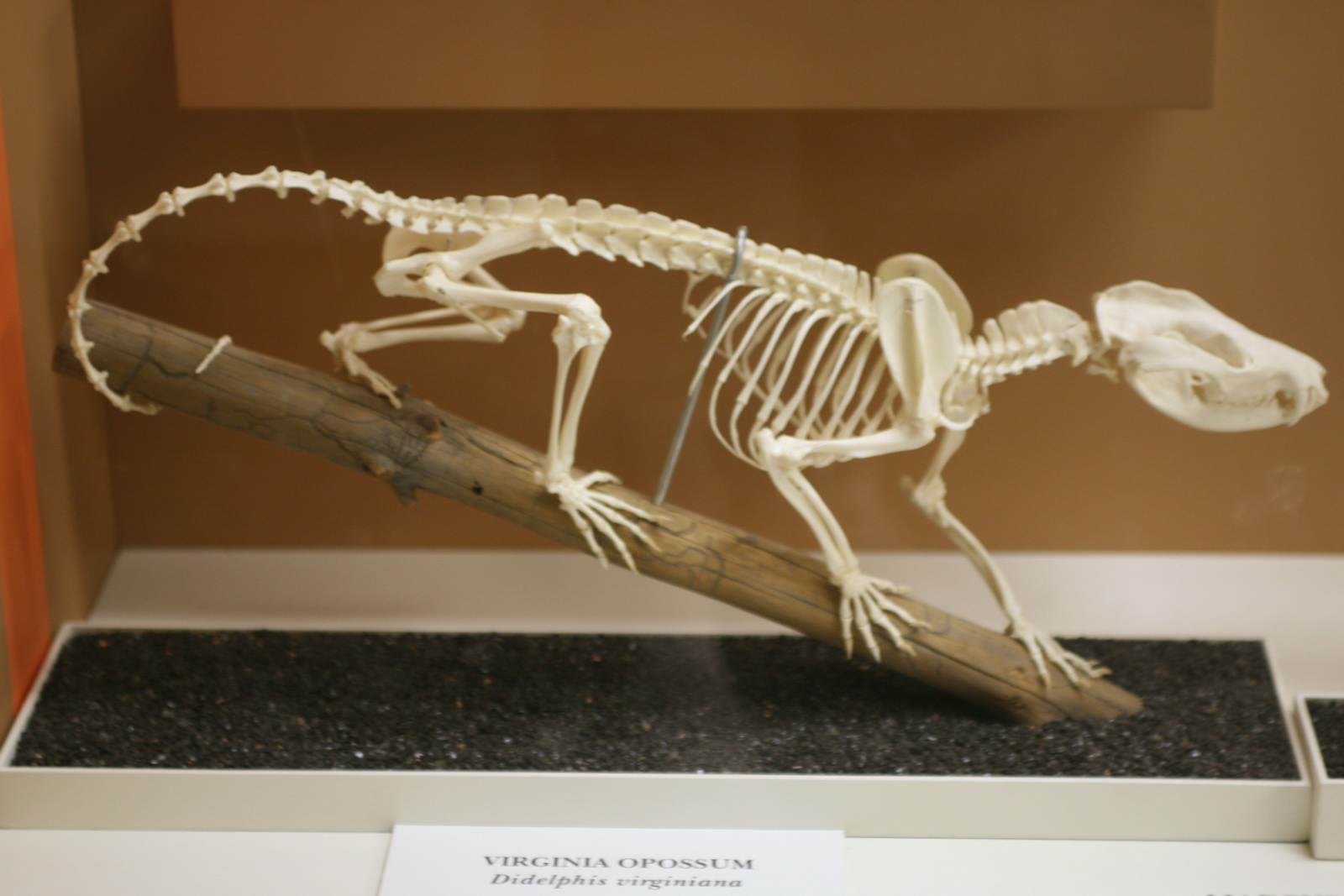 Skeleton of the Didelphis albiventris